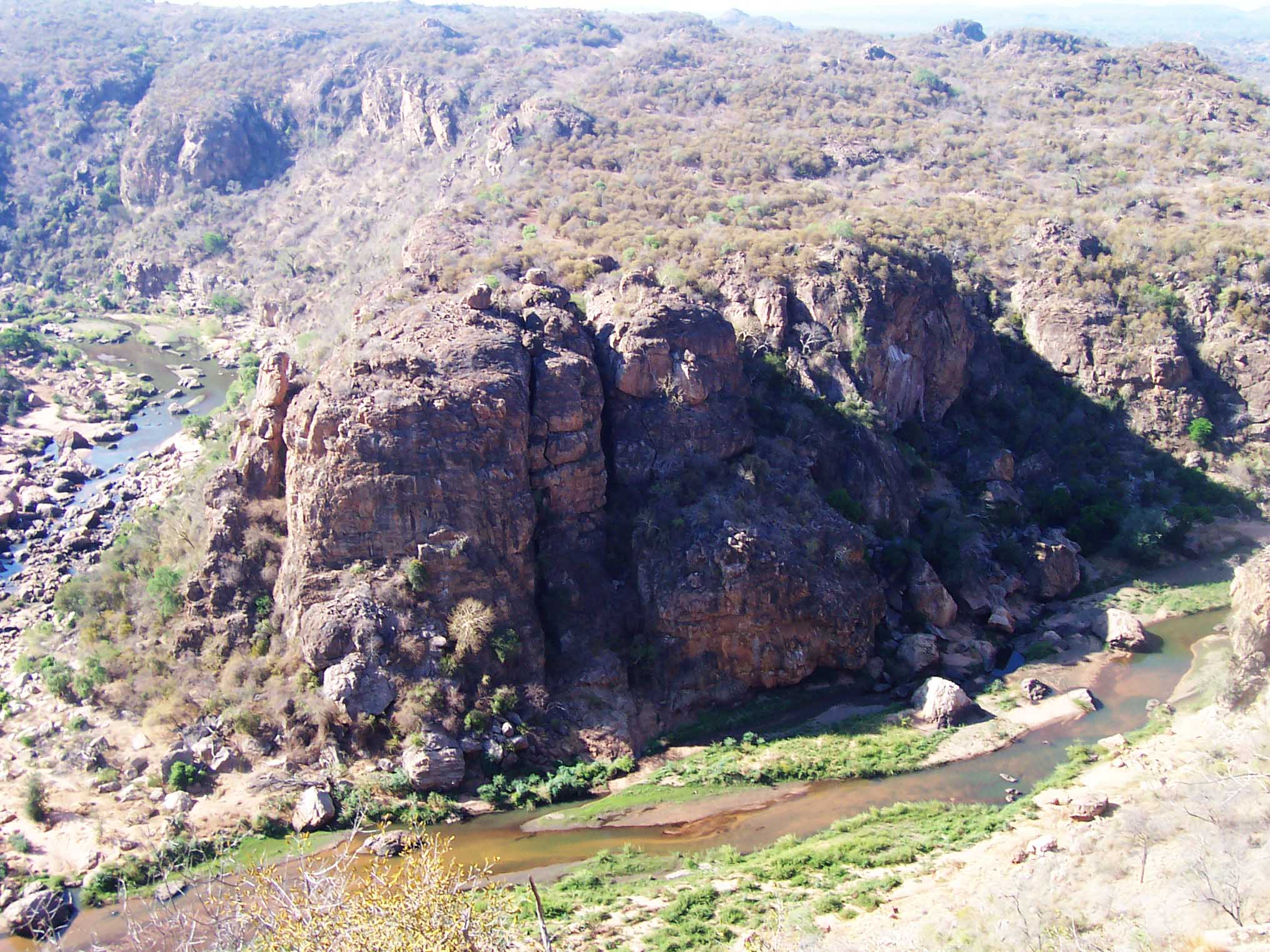 View of Lanner Gorge and the Luvuvhu River, Pafuri region, South Africa